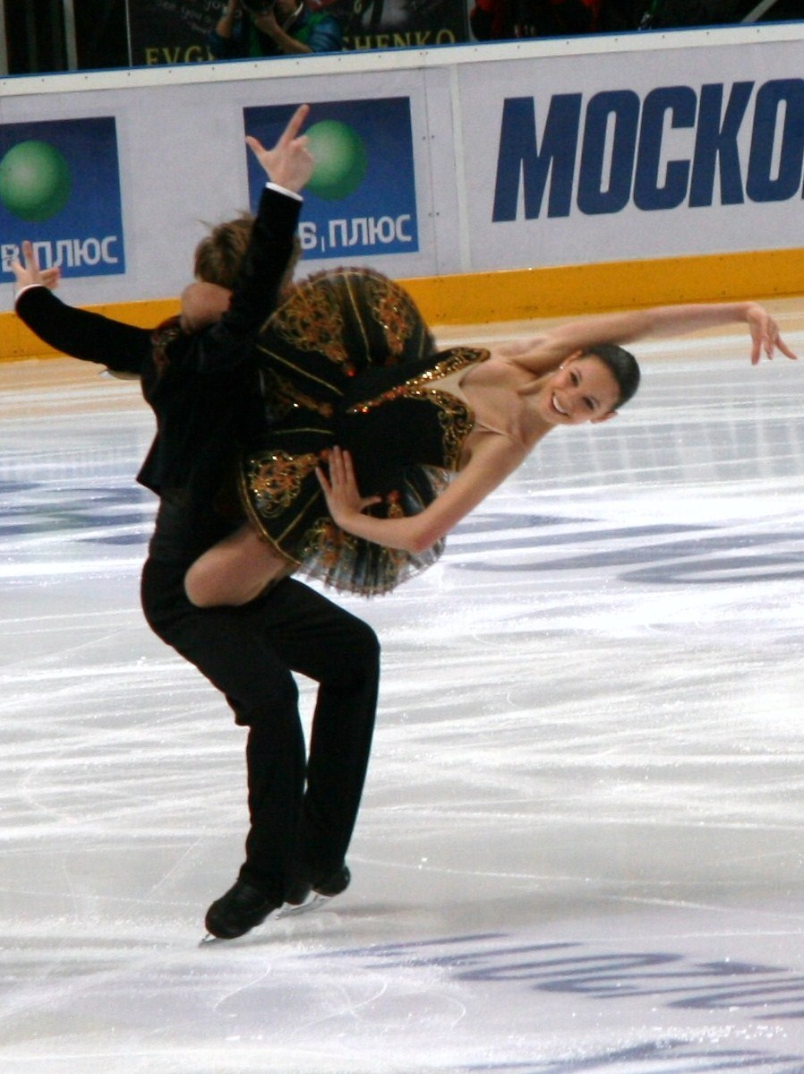 Elena Ilinykh and Nikita Katsalapov at the 2010 Cup of Russia